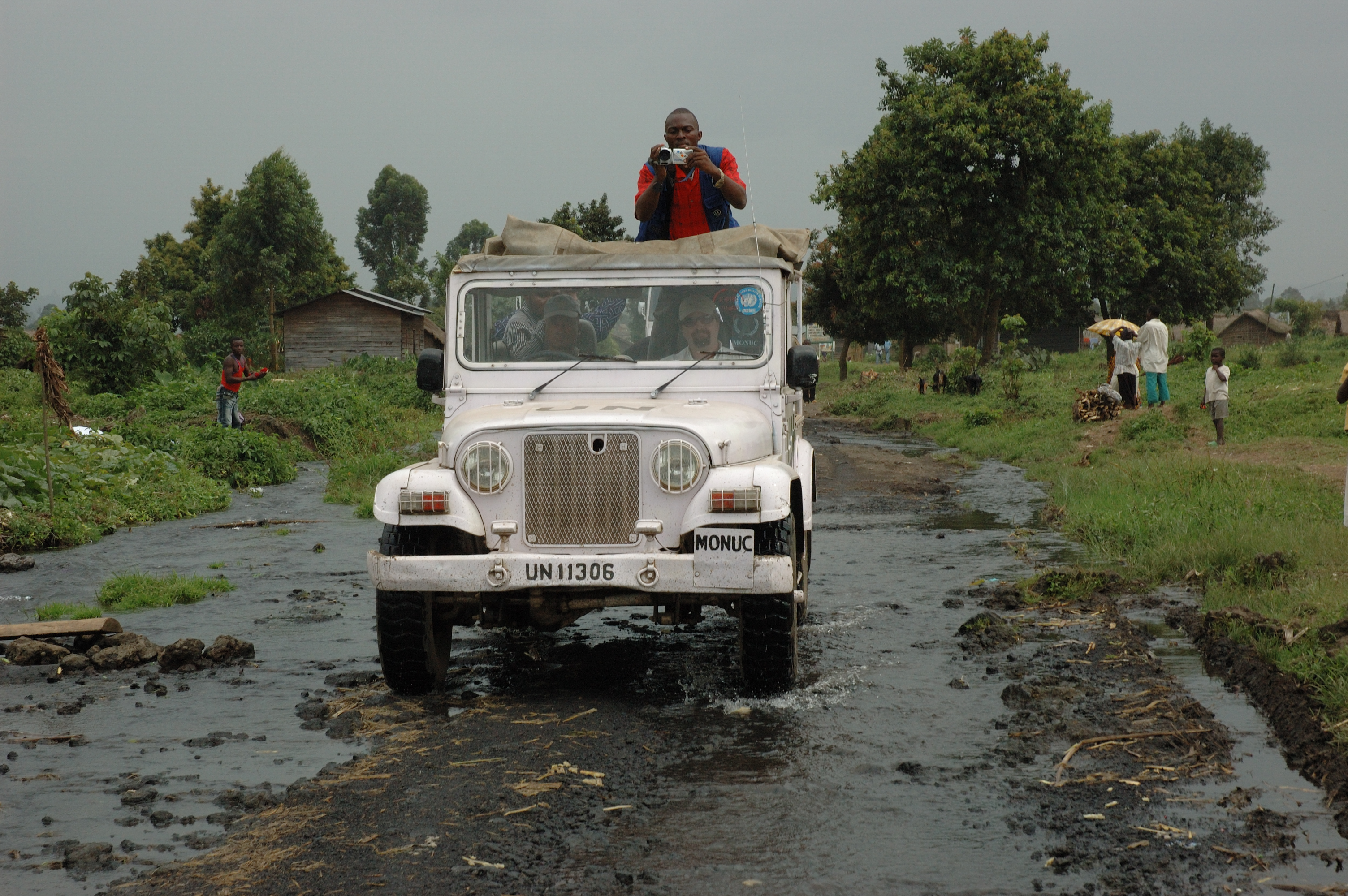 Mahindra Jeep of the MONUC in the Democratic Republic of Congo